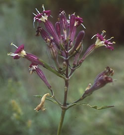 According to IUCN/SSC specialists this is one of the most endangered species of island floras in the Mediterranean area.